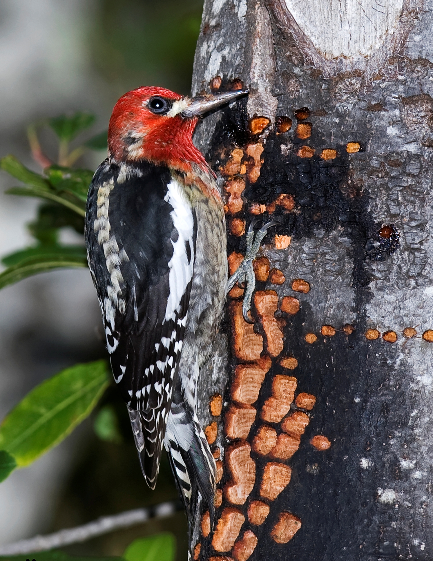 Red-breasted Sapsucker drilling shallow holes in the trunk of a Toyon bush, or tree in this case, to eat the tree sap. 1D Mark III w/300 mm f/2.8L + 580 EX II IS in manual mode at 1/2 power from the van with Arthur Morris BLUBB. Subject distance 20 feet. It is interesting that a favorite fruit for the Cedar Waxwing is the Toyon Berries from this bush or tree and the Red-breasted Sapsucker enjoys the sap.